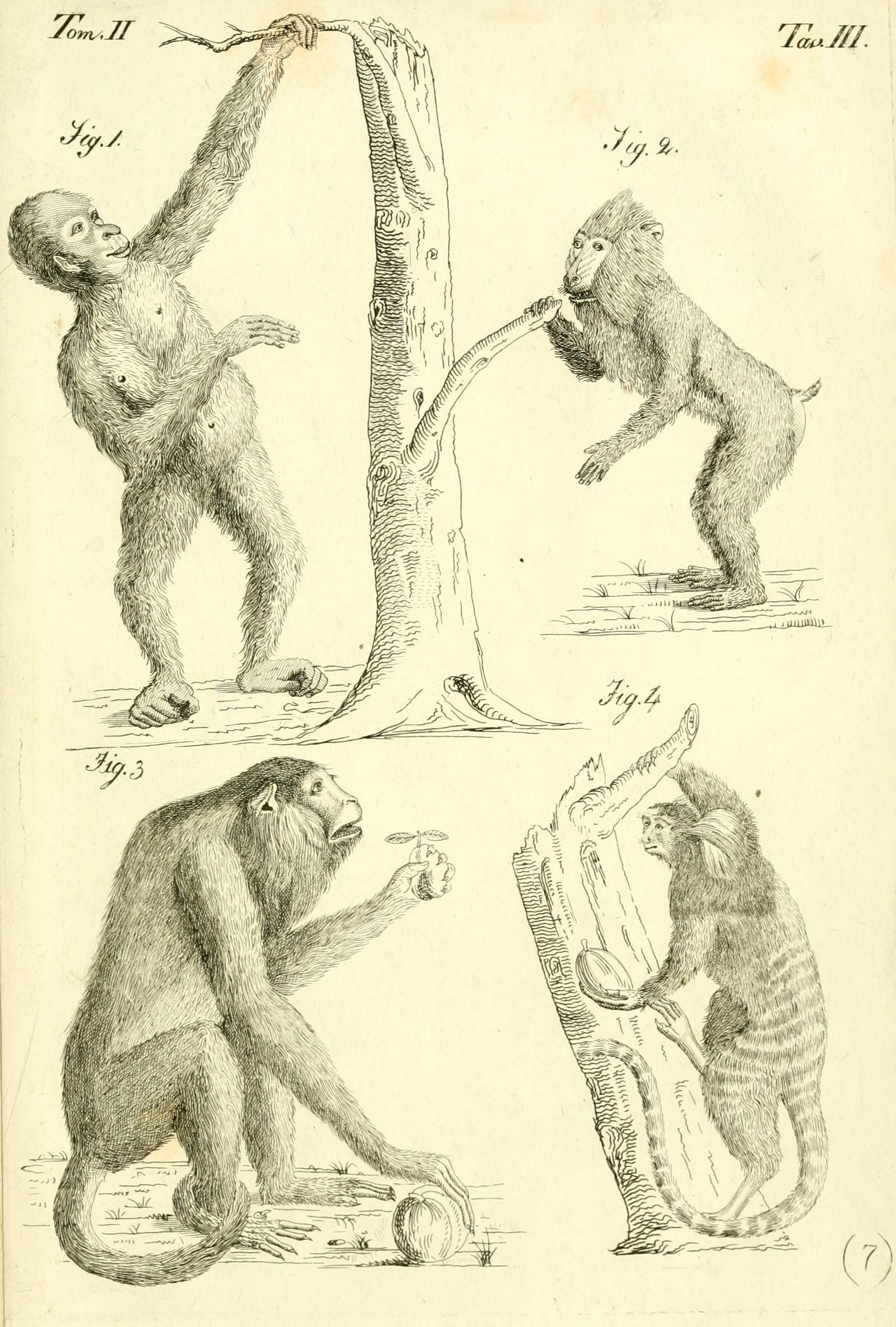 Title: Elementi di zoologia Year: 1819 (1810s) Authors: Ranzani, Camillo, 1775-1841; Richmond, Charles Wallace, 1868-1932, former owner. DSI Subjects: Zoology Publisher: Bologna : Per le stampe di Annesio Nobili Text Appearing Before Image: -/oni/.JI 7^.///. '^fa. ^. Text Appearing After Image: '